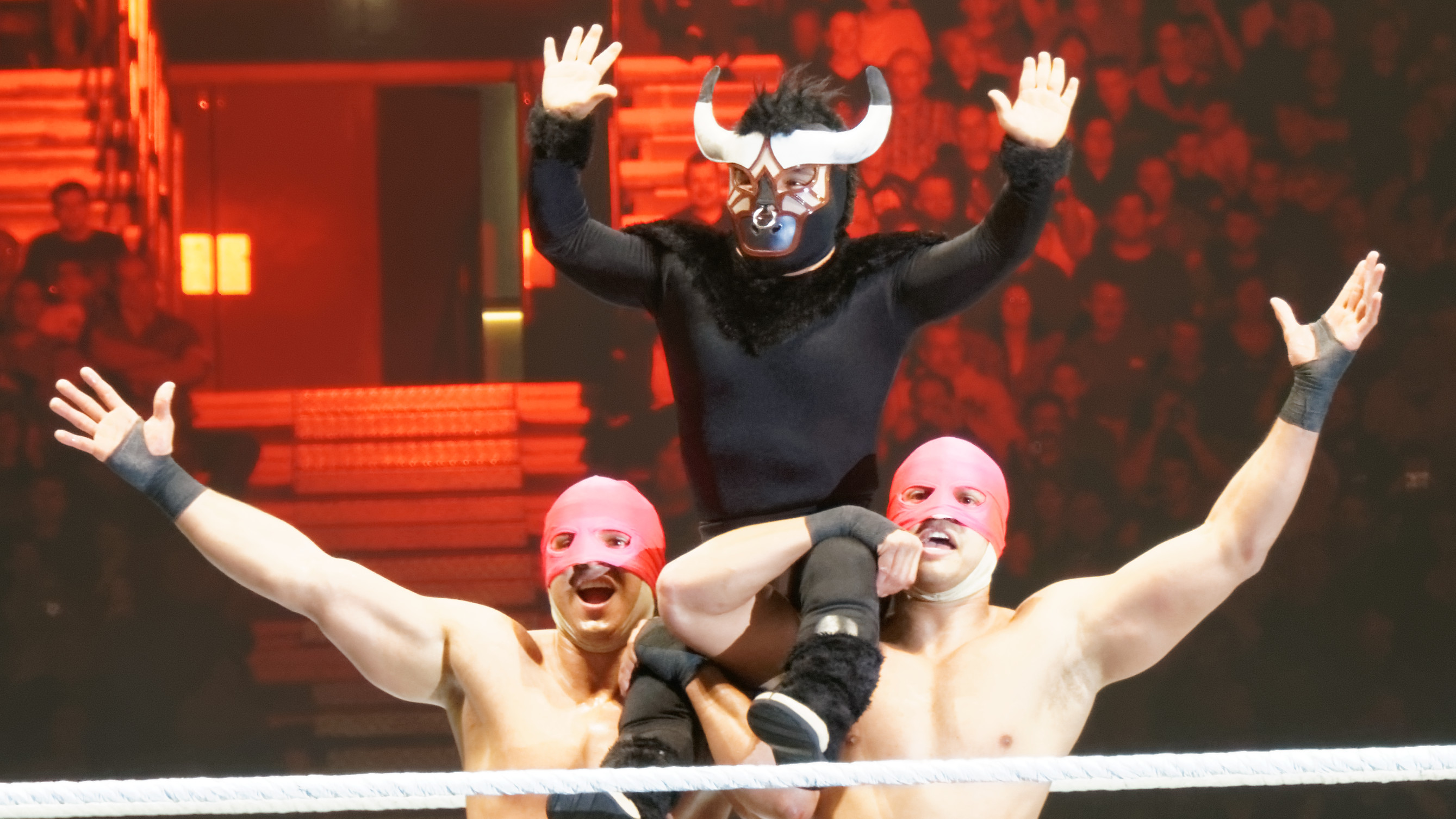 Los Matadores (aka Eddie and Orlando Colon) with El Torito (aka Mascarita Dorada) in the ring in November 2013.